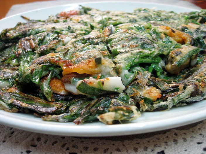 Haemul-buchu-buchimgae (garlic chives and seafood pancake)